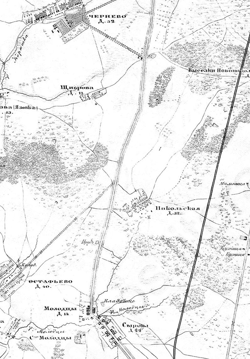 Nikolskaya village